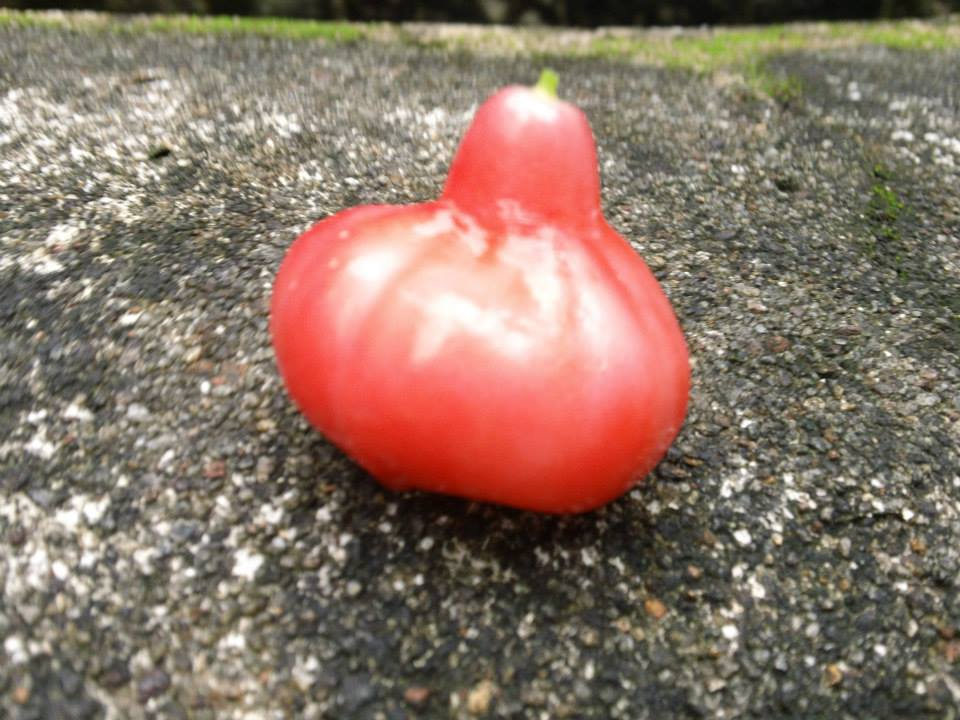 Syzygium samarangense fruit.